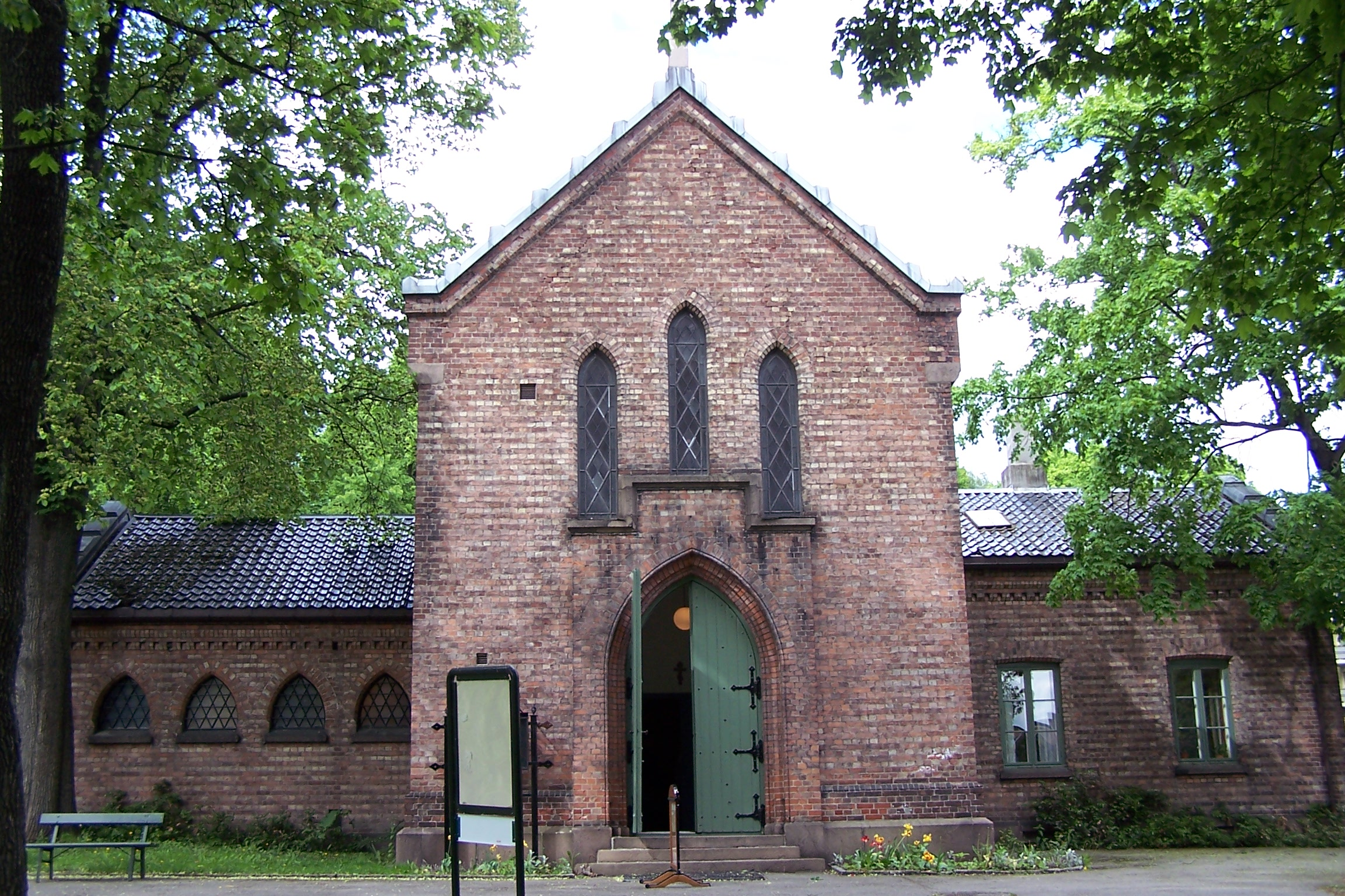 Our Saviour's Orthodox Church, formerly the chapel on Vår Frelsers gravlund. Akersveien 33.